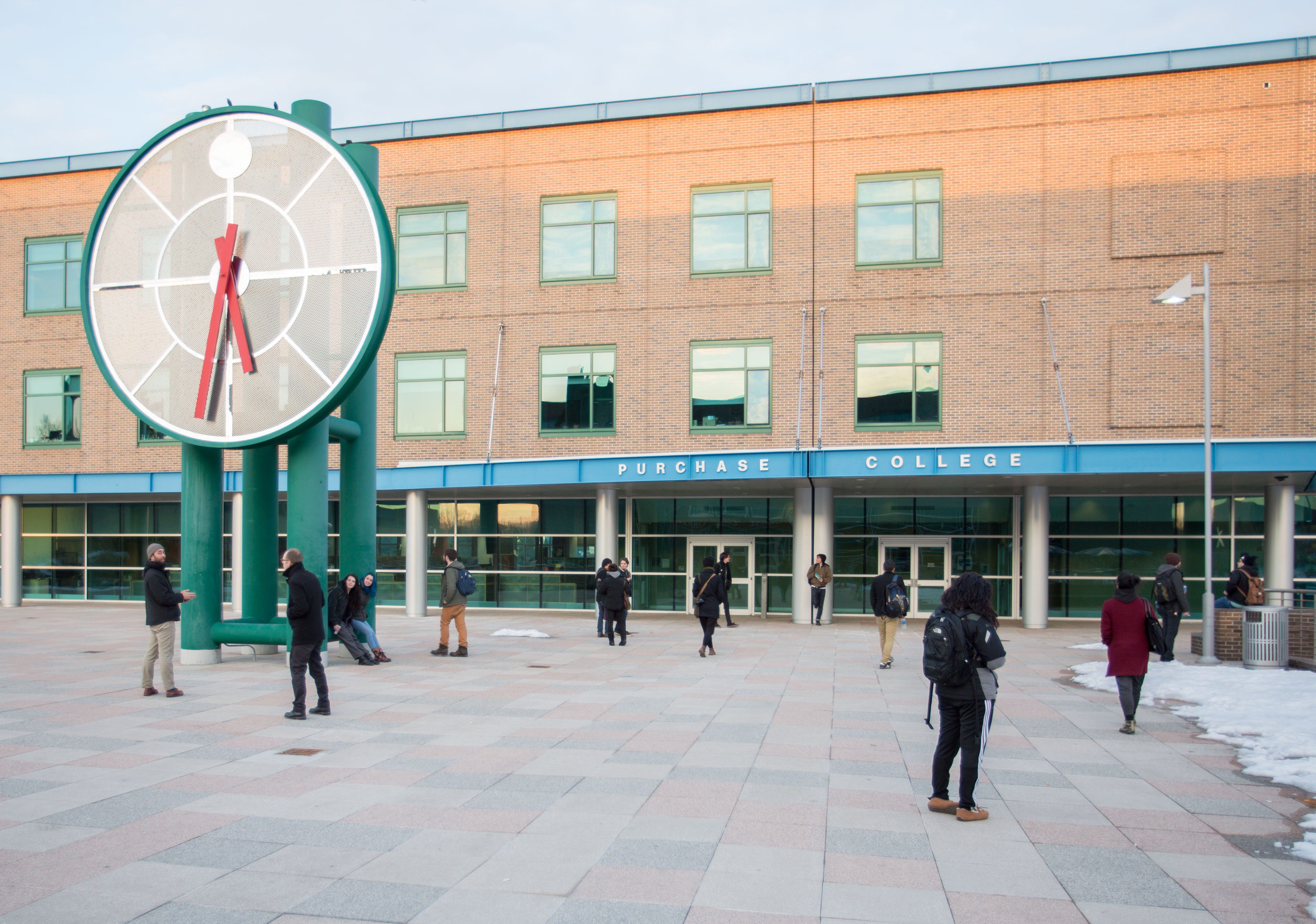 Photograph of Student Services at SUNY Purchase College